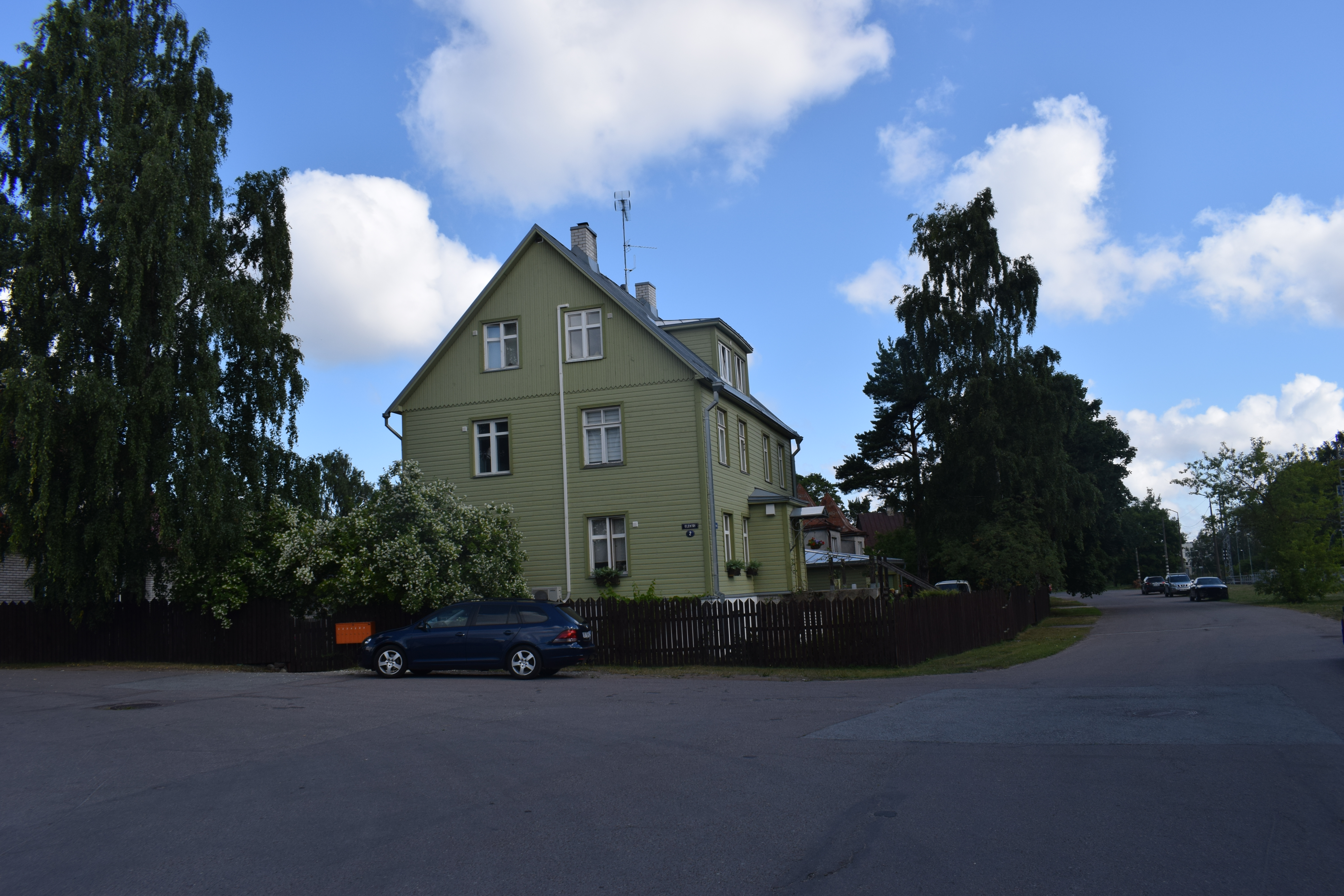 Elektri 2